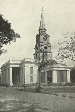 The old Cathedral Church of Calcutta. Started in 1783 and opened in 1787.